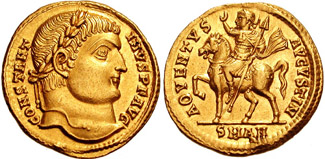 CONSTANTINE I. 307-337 AD. AV Solidus (4.52 gm). Antioch mint. Struck 324-325 AD. CONSTANT-INVS P F AVG, laureate head right AOVENTVS (sic) AVGVSTI N, Constantine on horseback left, raising right hand and holding spear; SMAN. RIC VII 48 var. (reverse legend, star on reverse); Alföldi 5 var. (same); Depeyrot 41/1 var. (same). EF. Unpublished variety. Following the defeat of Licinius in mid 324 AD, Constantine increased production in the eastern mints in order to pay the costs of his increased spending. The rapid increase in coinage resulted in frequent mintmark and reverse legend variations.